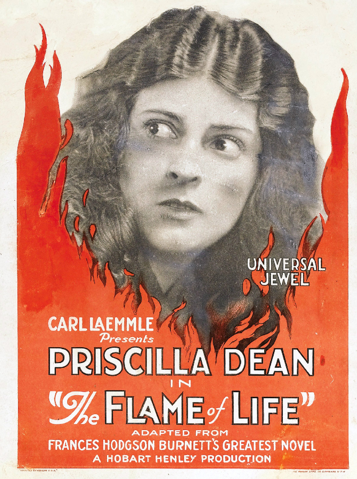 Window poster for the American drama film The Flame of Life (1923). There are no copyright marks. At lower left is Country of origin USA. At lower right is The Morgan Litho Co Cleveland USA-they printed the poster.